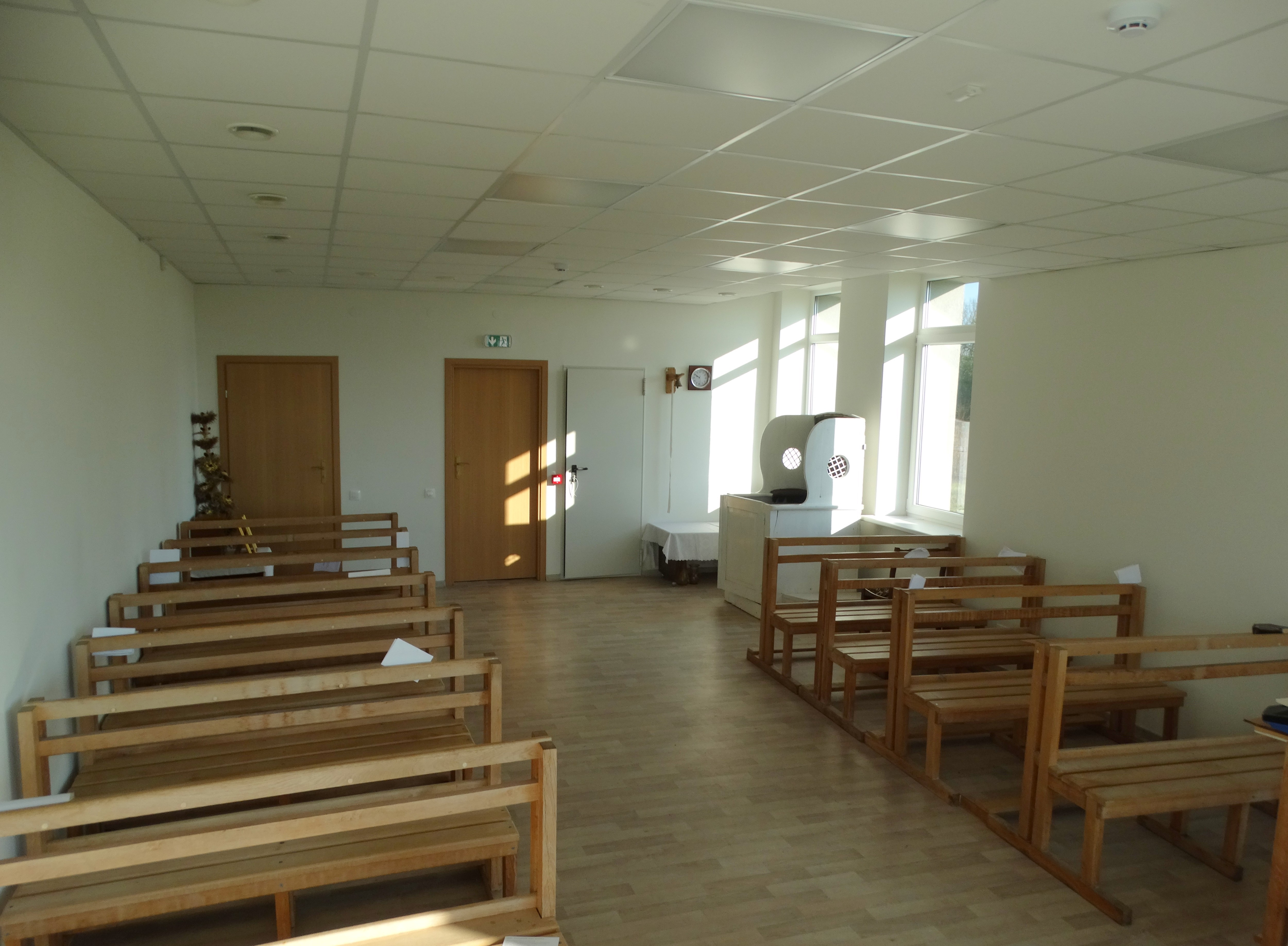 Žadeikiai, chapel, Klaipėda District, Lithuania